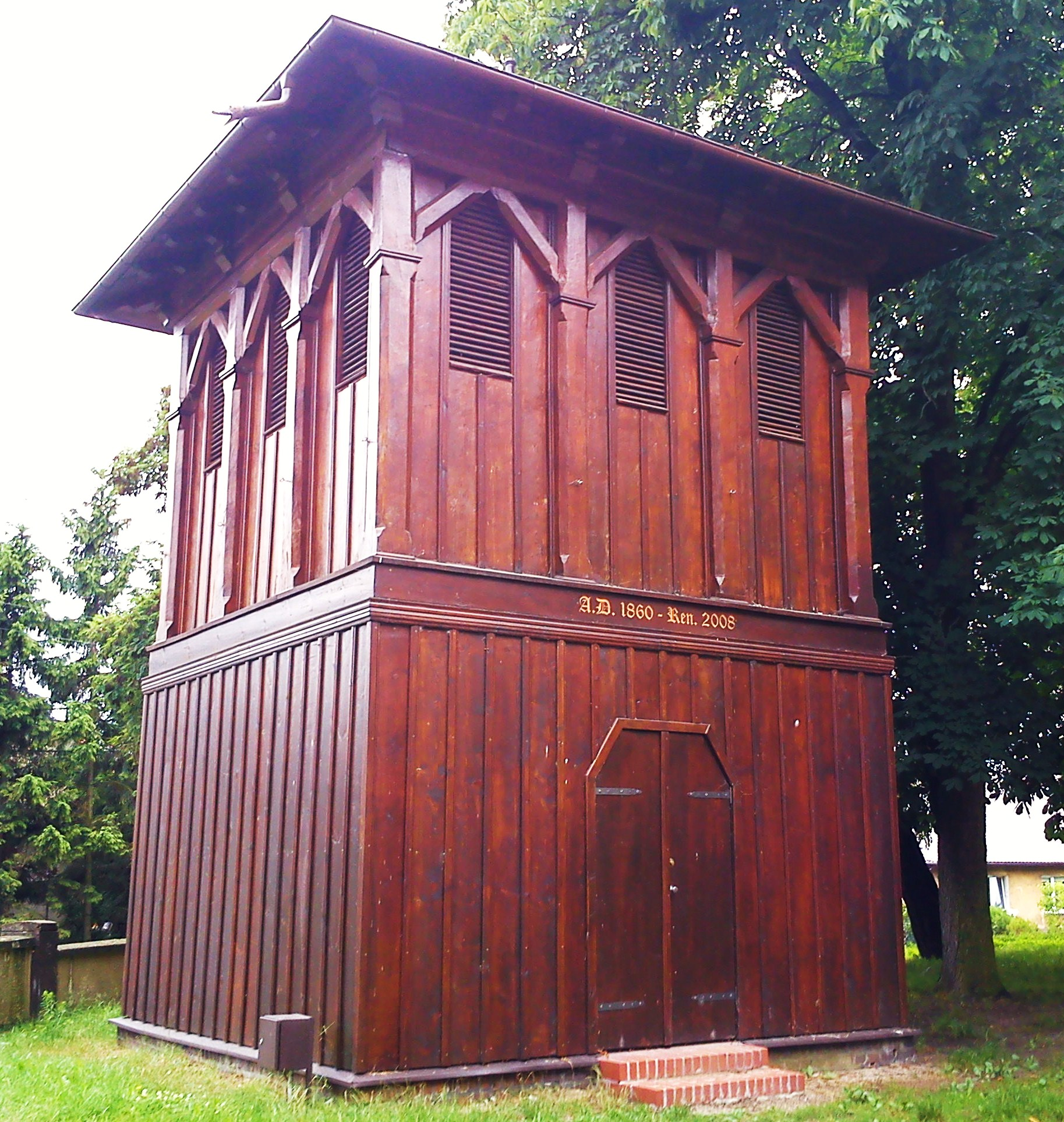 Wooden bell tower next to the church in Tulce.